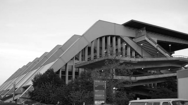 Modified version of :Image:Ottawaciviccentre.jpg